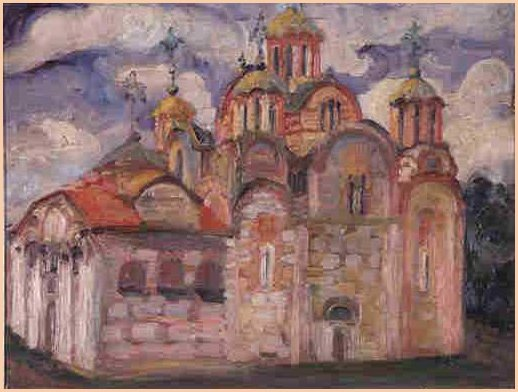 Gracanica